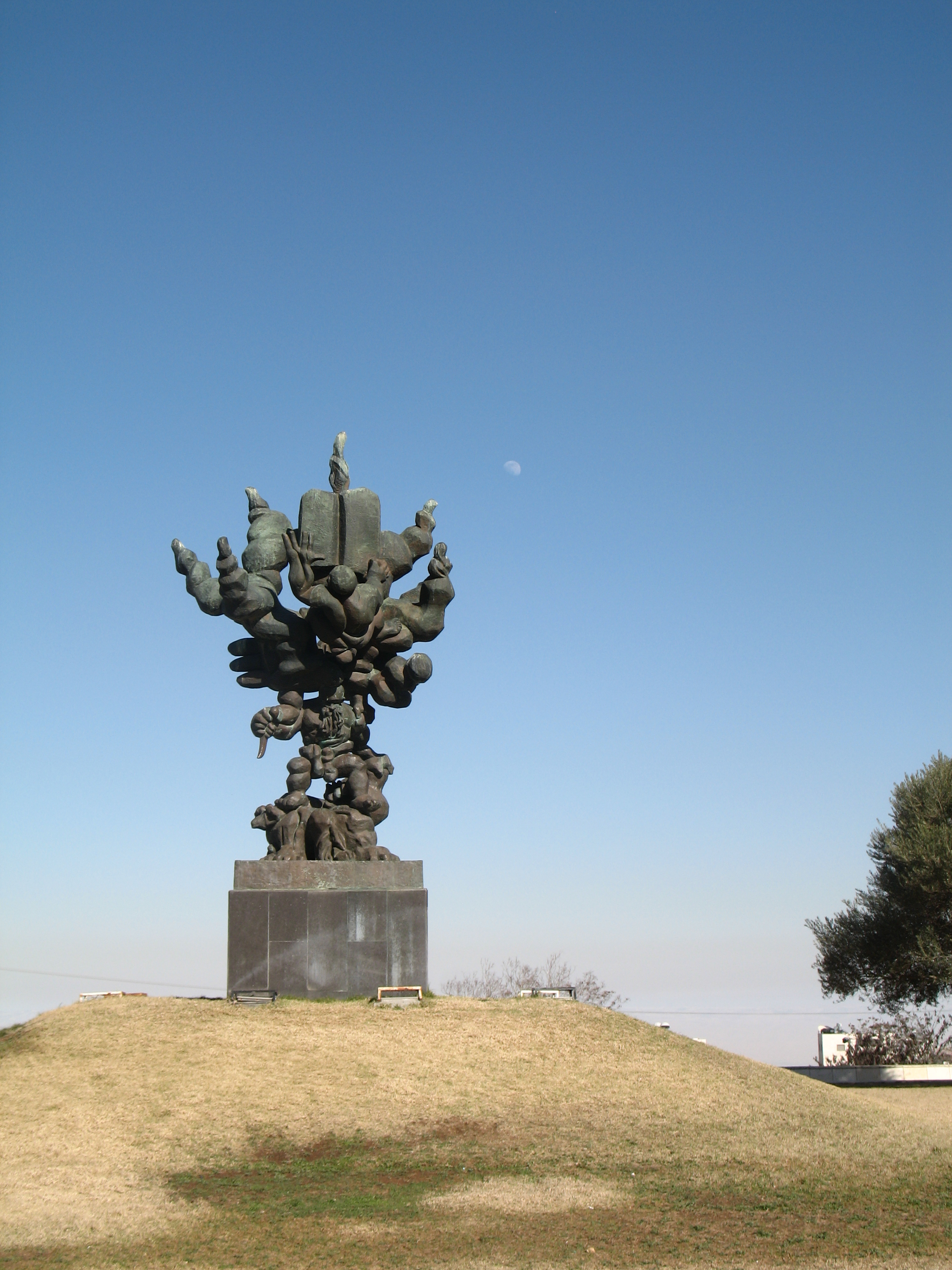 Hadassah University Hospital, Mt. Scopus, Tree of life statue